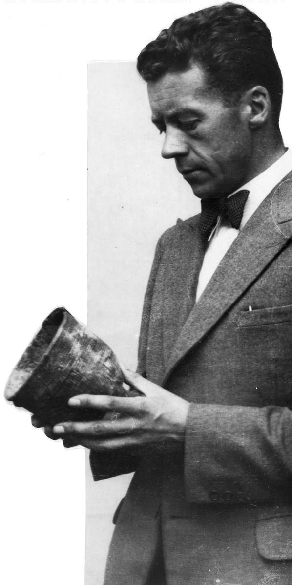 portrett, mann, professor, stående halvfigur med gjenstand. DigitaltMuseum. Retrieved on 01.12 2014.